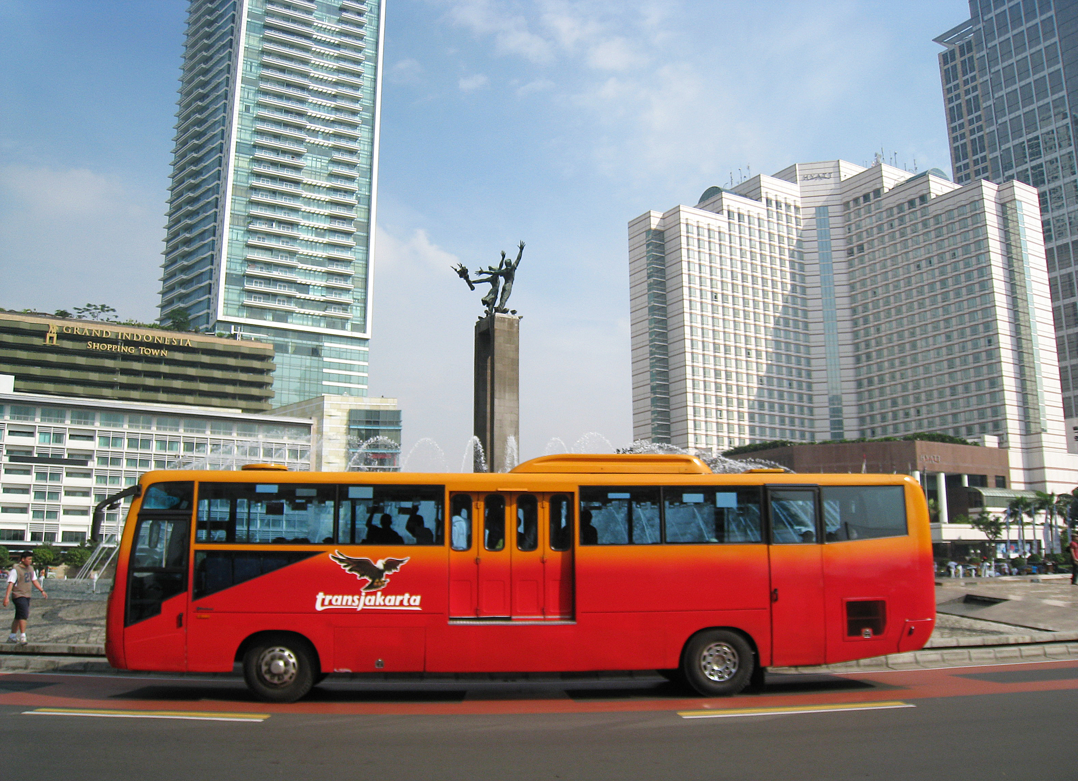 TransJakarta Corridor I bus at "Bundaran Hotel Indonesia" traffic circle. The Selamat Datang monument, Grand Indonesia and Plaza Indonesia shopping centre are on the background.